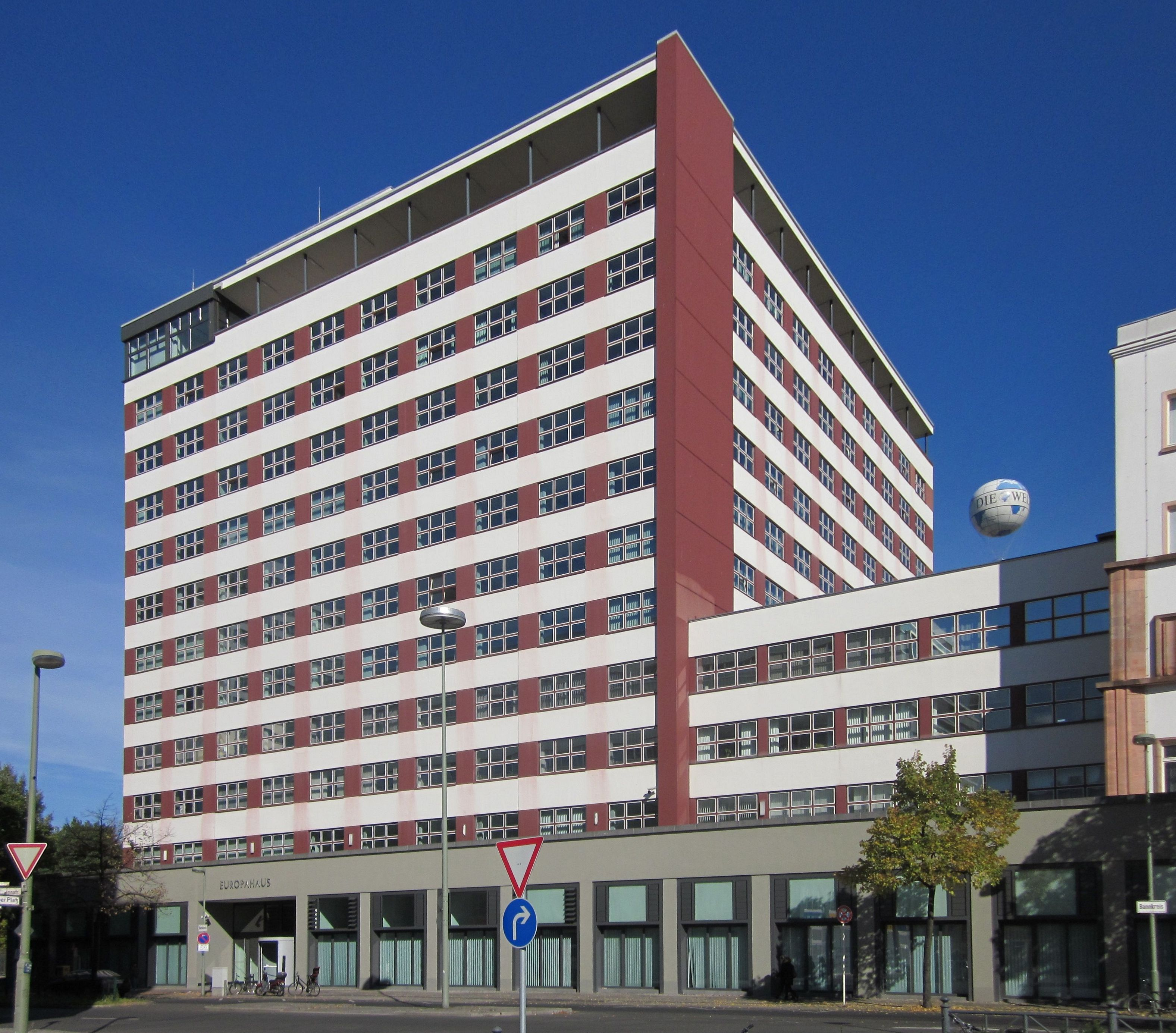 The Europahaus at Stresemannstraße No. 92-94 in Berlin-Kreuzberg, the Berlin residence of the German Federal Ministry of Economic Cooperation and Development. The building was constructed between 1926 and 1931 in connection with the neighboring Deutschlandhaus. The original design was by the architects Bielenberg & Moser, but it was changed after Bielenberg's death by Otto Firle. The Europahaus was serverly damaged in WWII and reconstructed with different design between 1959 and 1966.